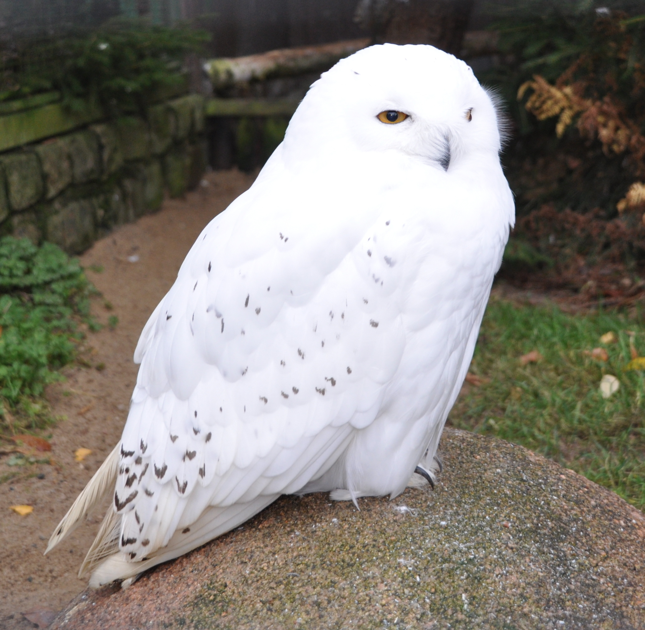 Male Snowy-owl (Bubo scandiacus) in the Lüneburg Heath wildlife park, Germany.